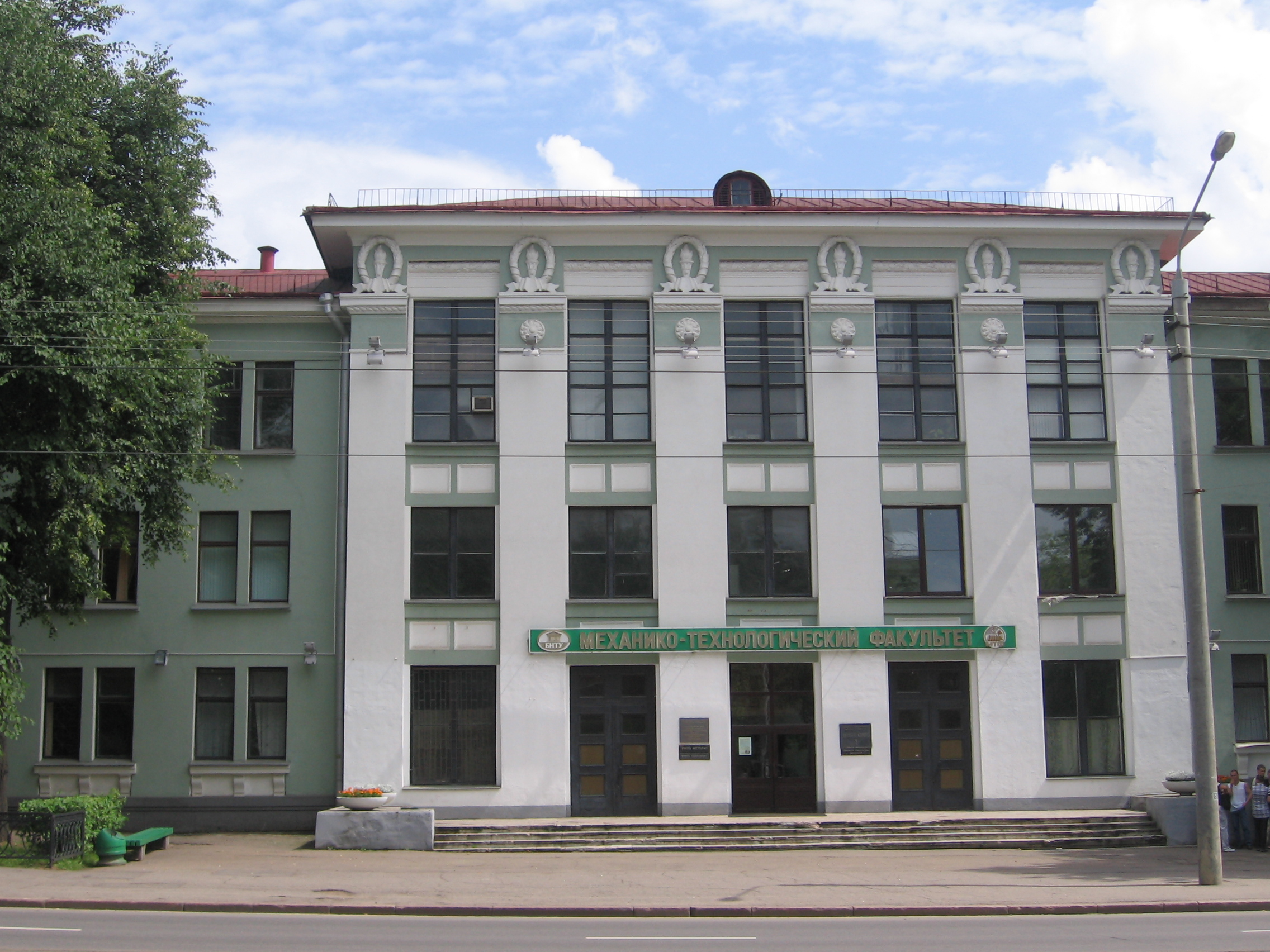 h.24